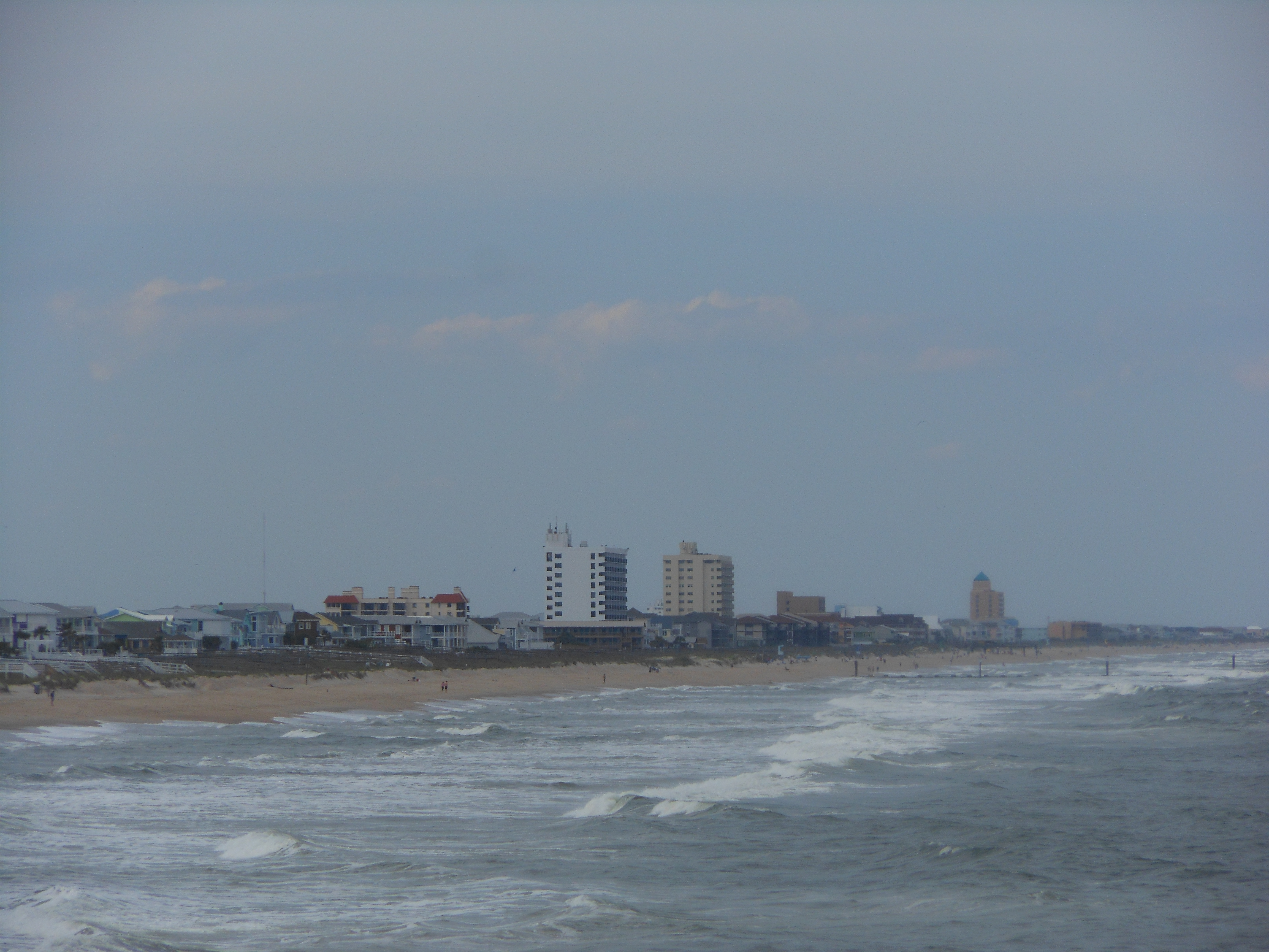 Carolina Beach, NC Waterfront homes and hotels